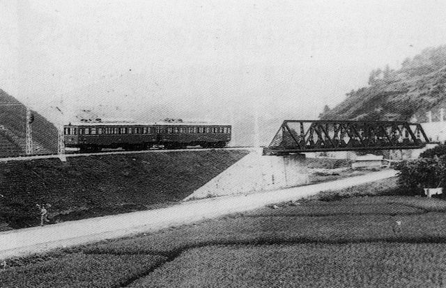 Trial running train that runs in Itabashi viaduct